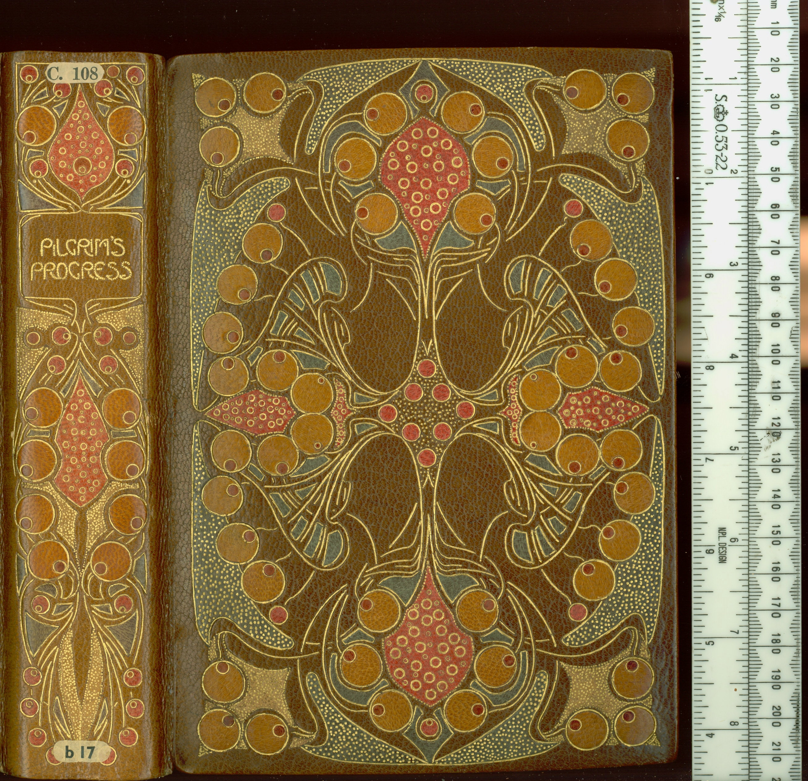 Style: All over design|Art nouveau; Caption: Upper cover and spine; Colour: Brown; Edge: Gilt